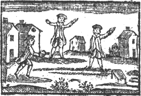 Image from A Little Pretty Pocket-book